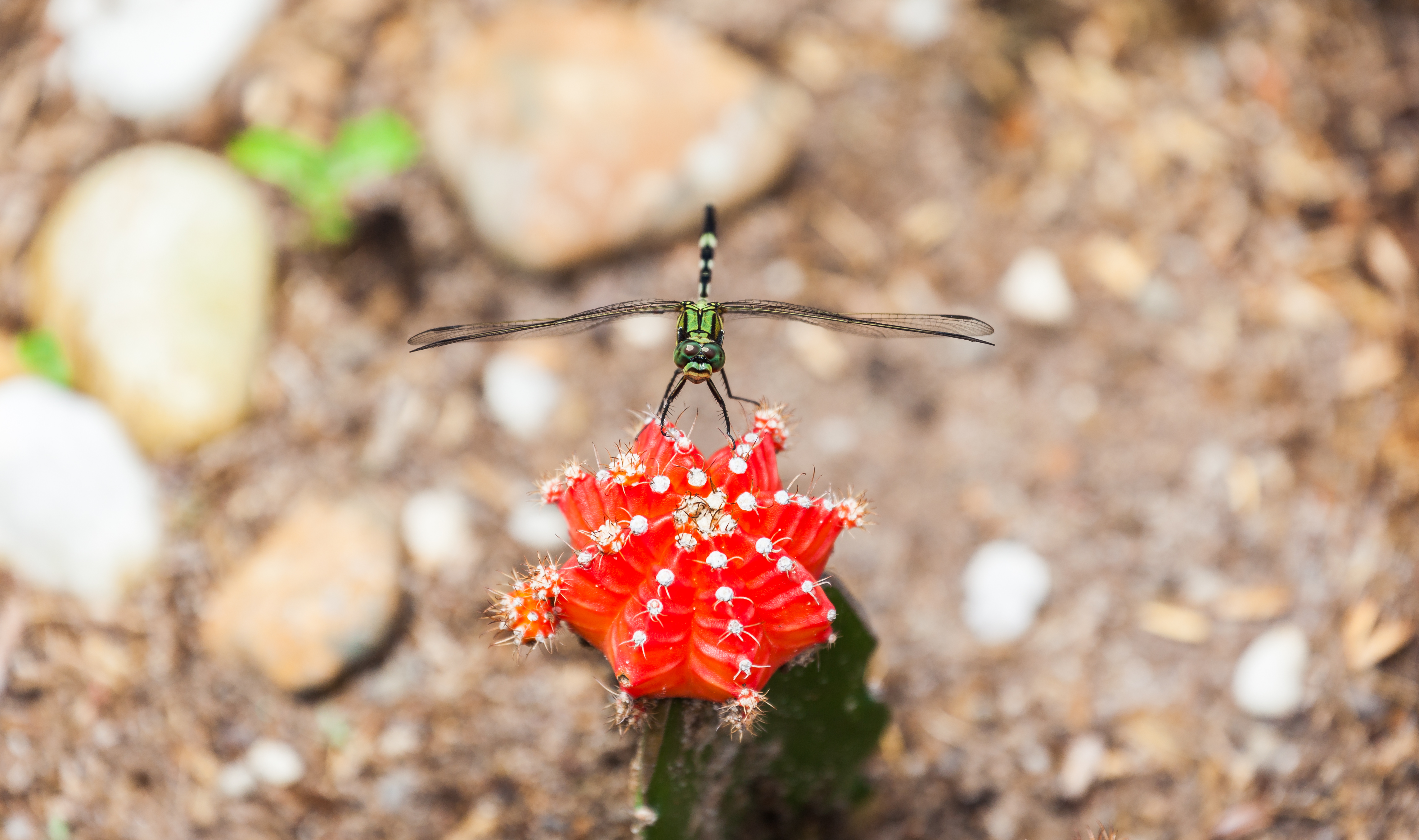 Dragonfly (Orthetrum sabina) on a Gymnocalycium mihanovichii, Ho Chi Minh City, Vietnam